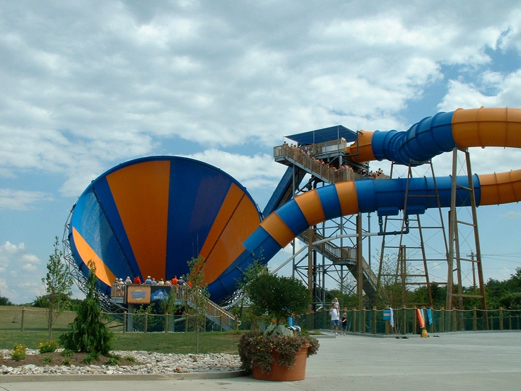 Tazmanian Typhoon at Soak City.